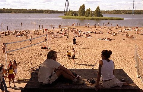 The Hietaniemi beach in Helsinki, Finland